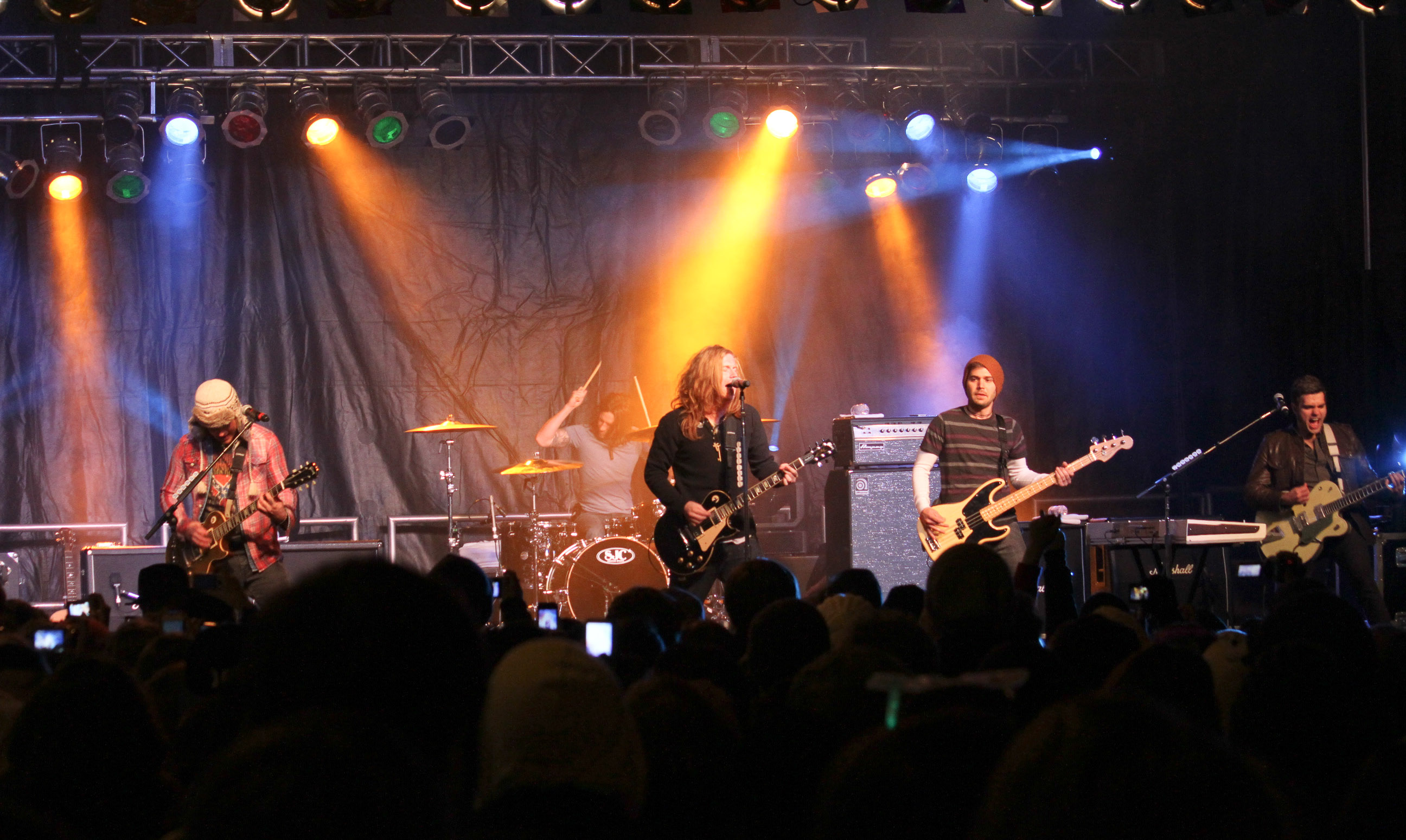 We the Kings performs at New Year's Eve in Hershey on 12/31/2011